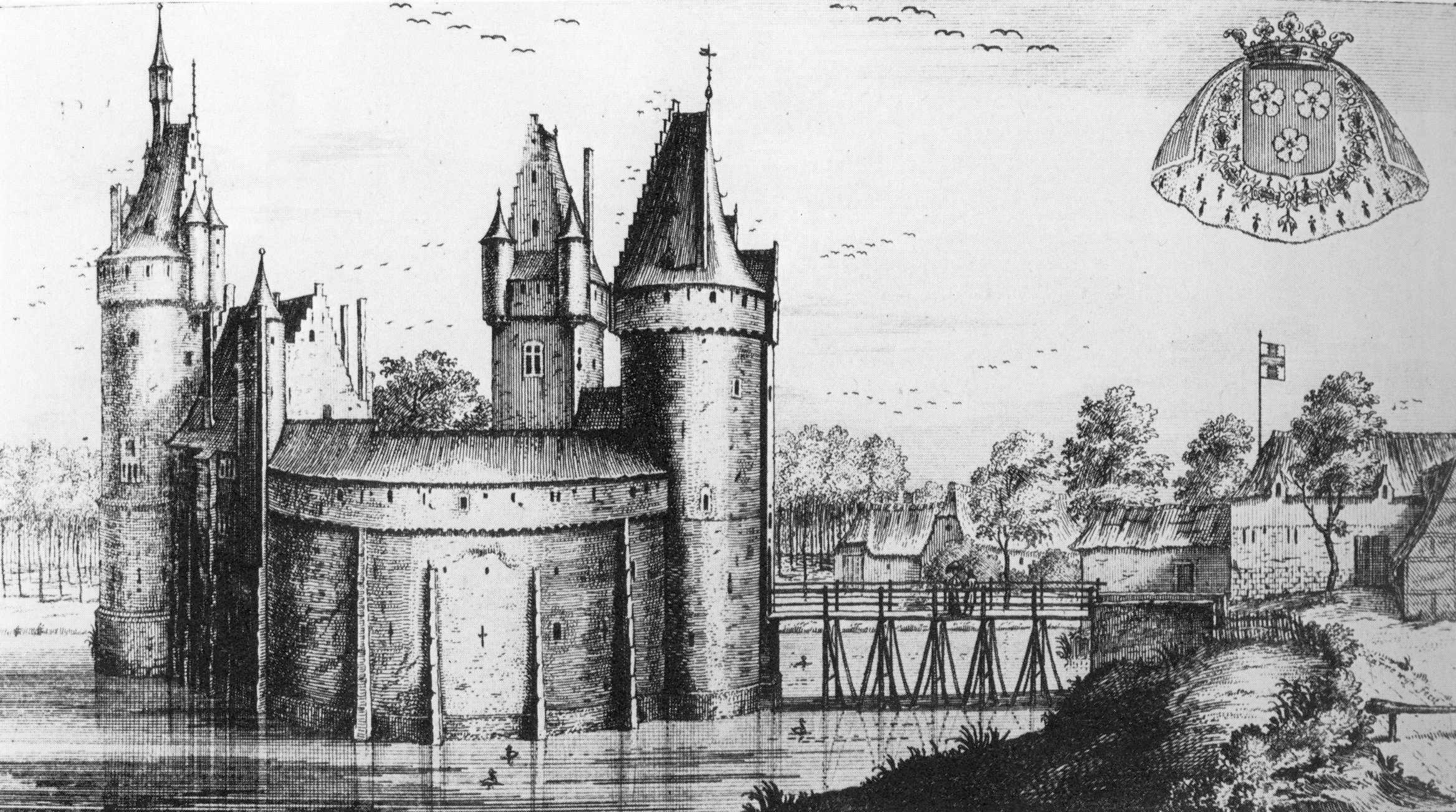 The Castle of Beersel, old copper engraving